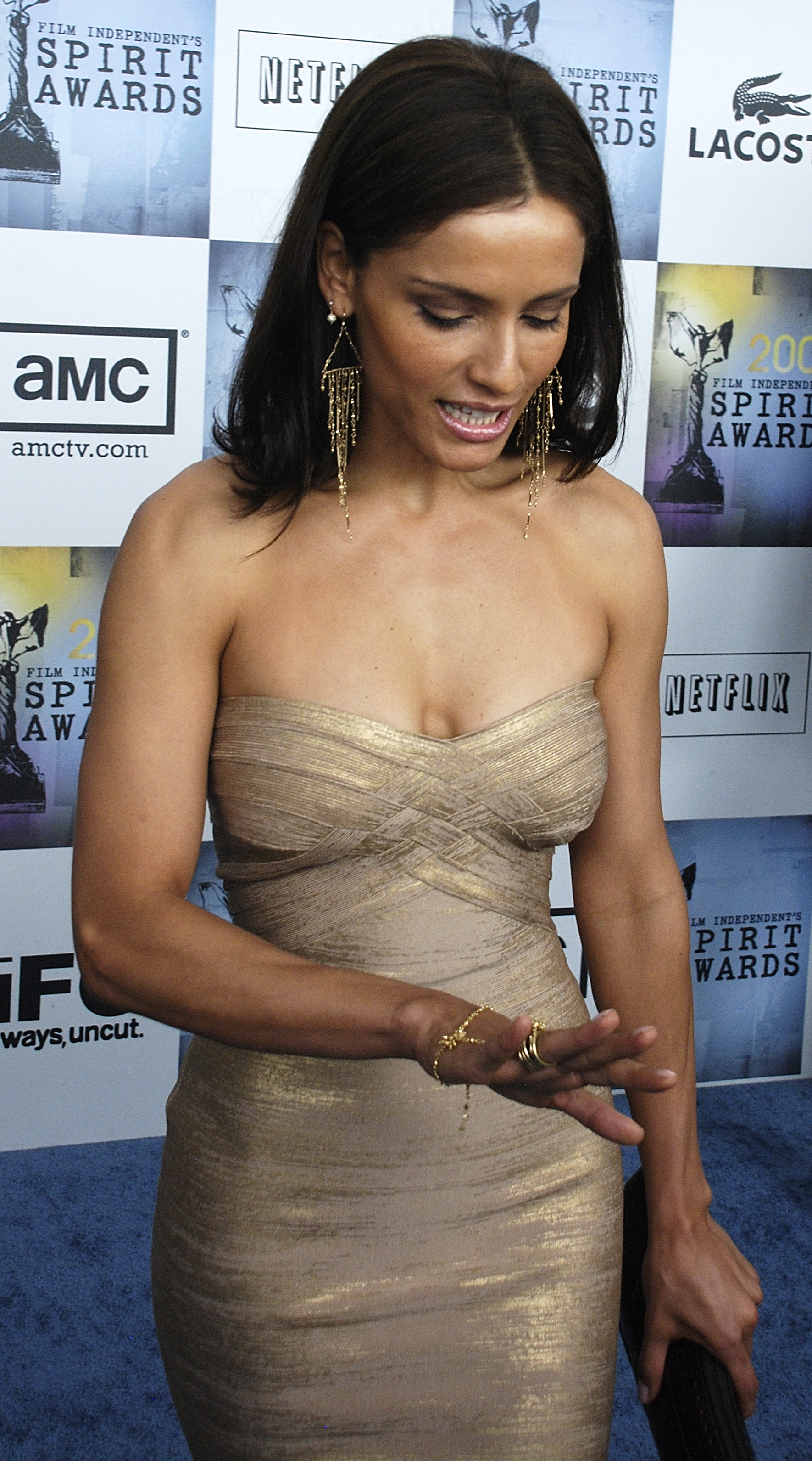 Actress Leonor Varela at the 2009 Independent Spirit Awards.